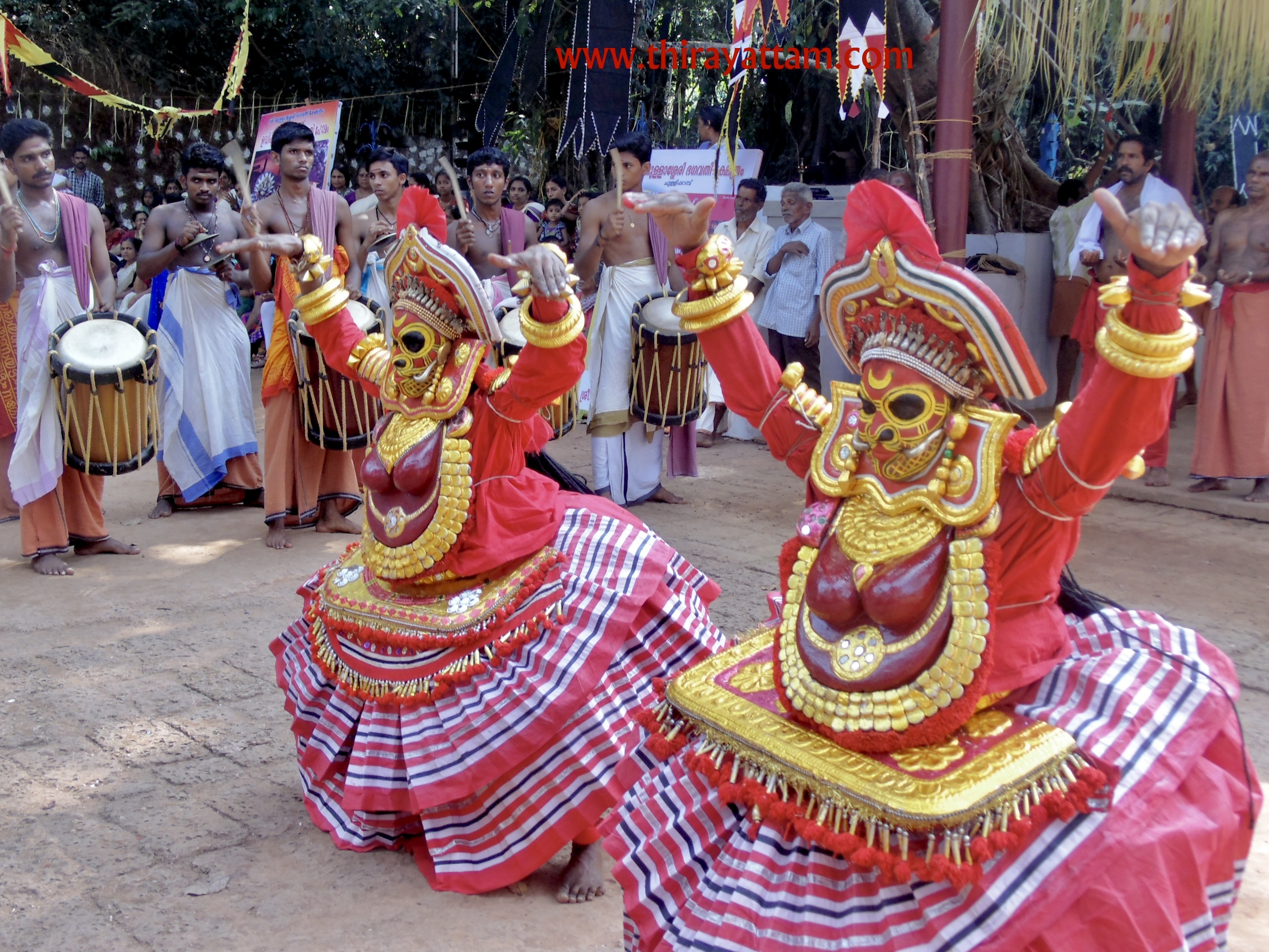 Thirayattam is a tripical riyualistic performing art form of south malabar in kerala,India. bhagavathi vallattu & thira is very important in thirayattam Festival